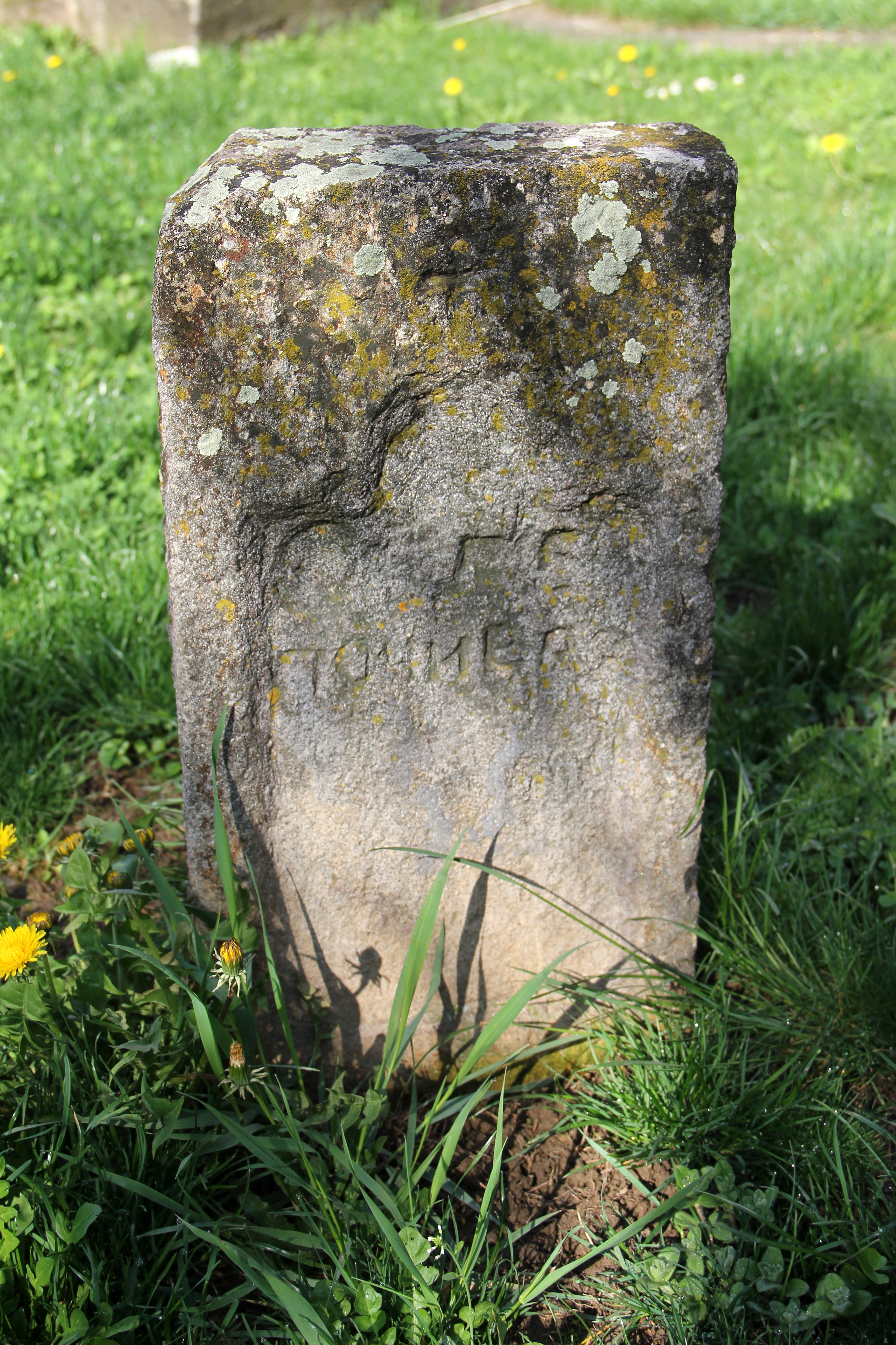 Old gravestone in front of the Museum of the Rudnik-Takovo Region in Gornji Milanovac (Serbia).